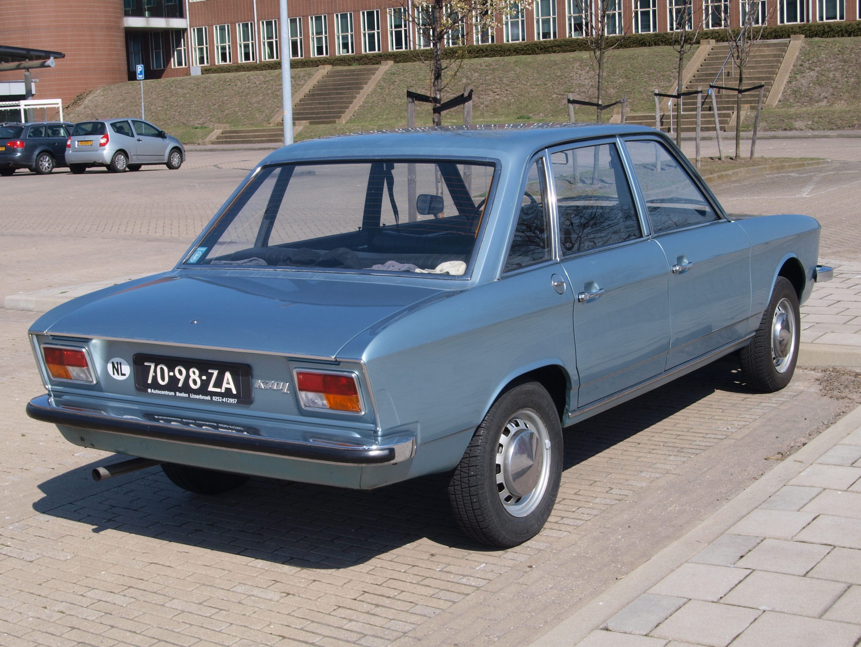 Photographed at the Hyacintenrit 2010, The Netherlands.